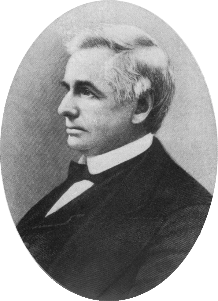 Profile black-and-white portrait of Judge Aaron Goodrich of Minnesota, a personality from the mid-19th century